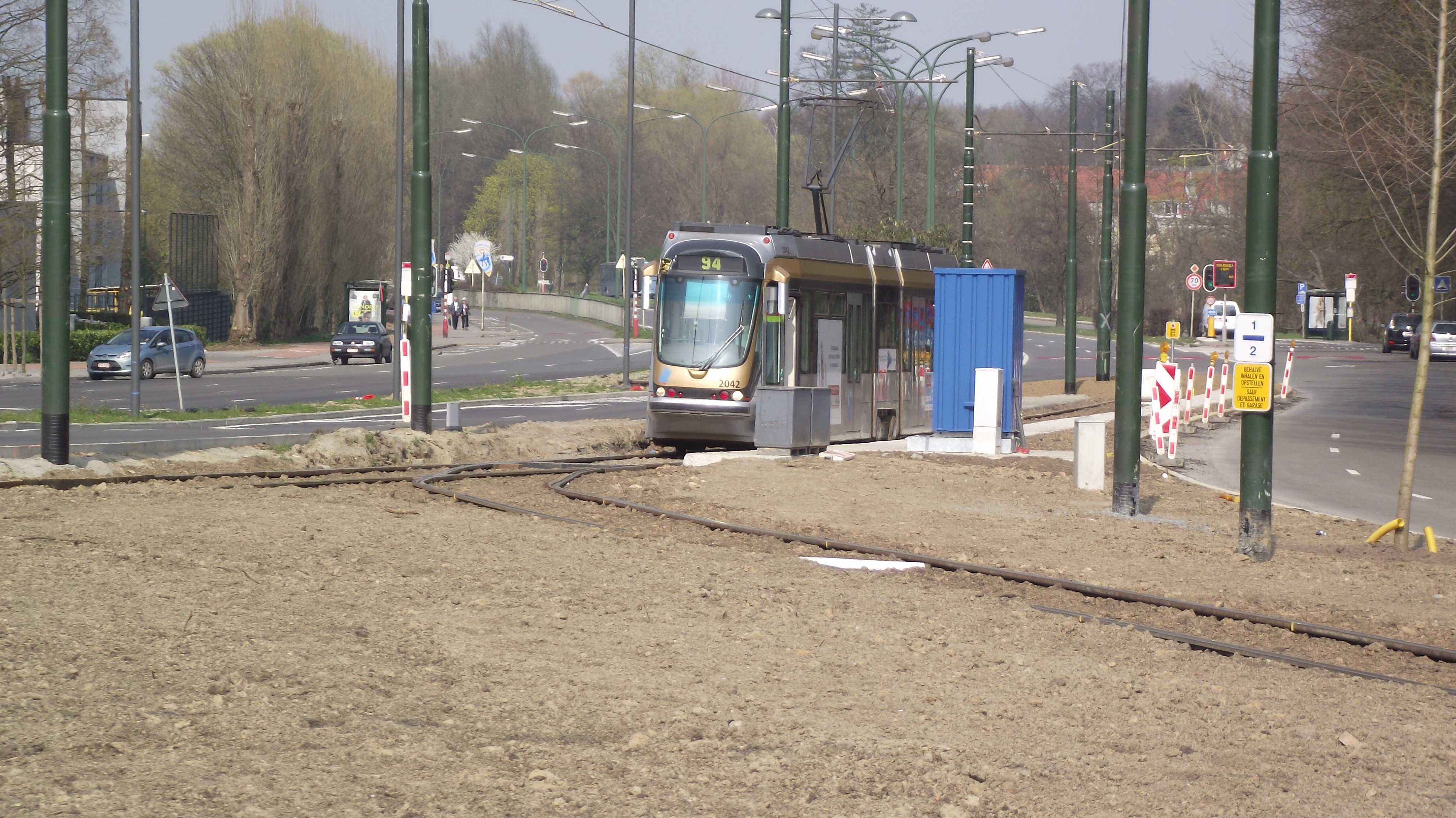 Endpoint of tramline 94 at the tram museum terminus.